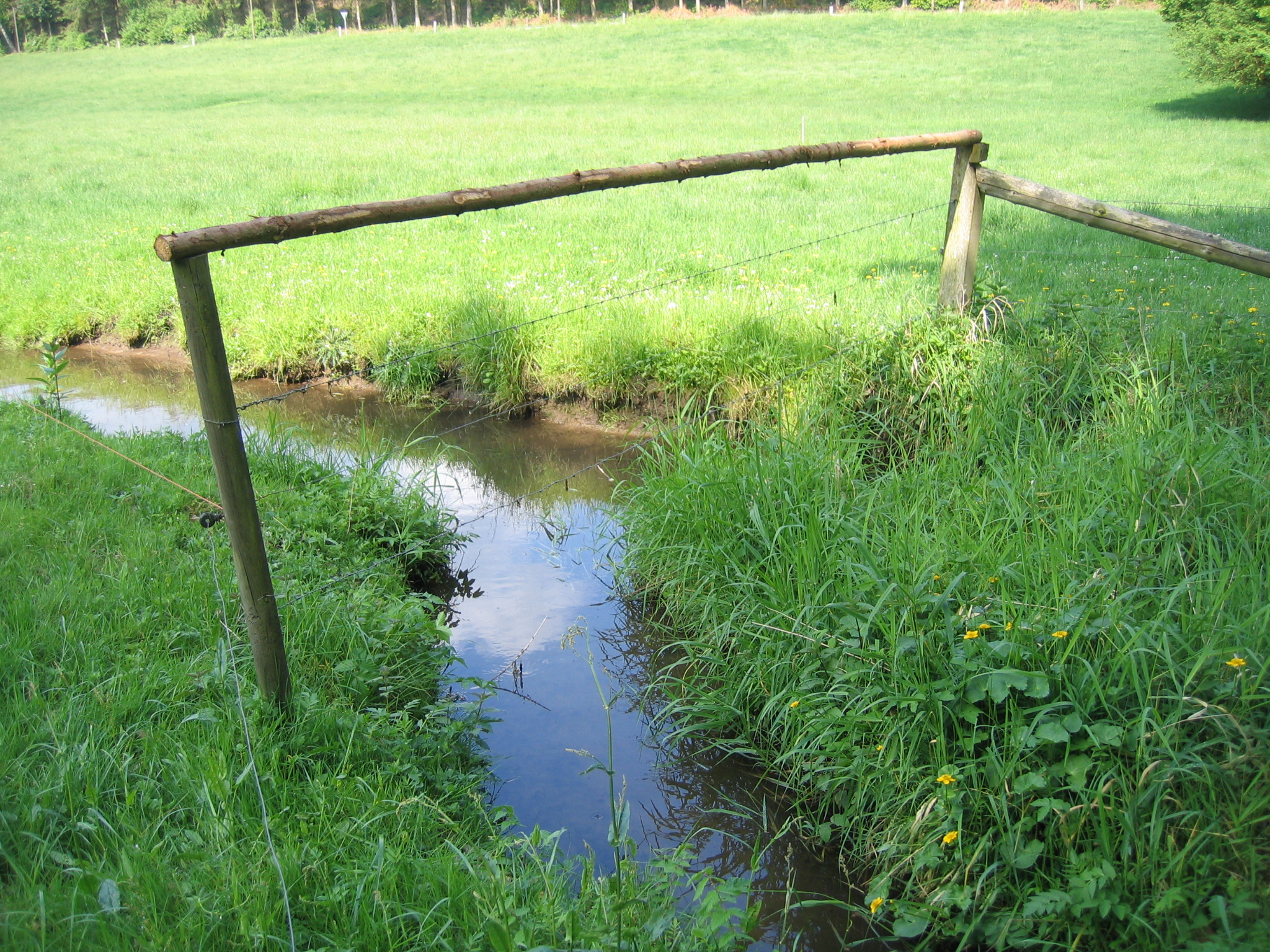 Confluence of Schierenebeeke and Große Aue in Rödinghausen, District of Herford, North Rhine-Westphalia, Germany.